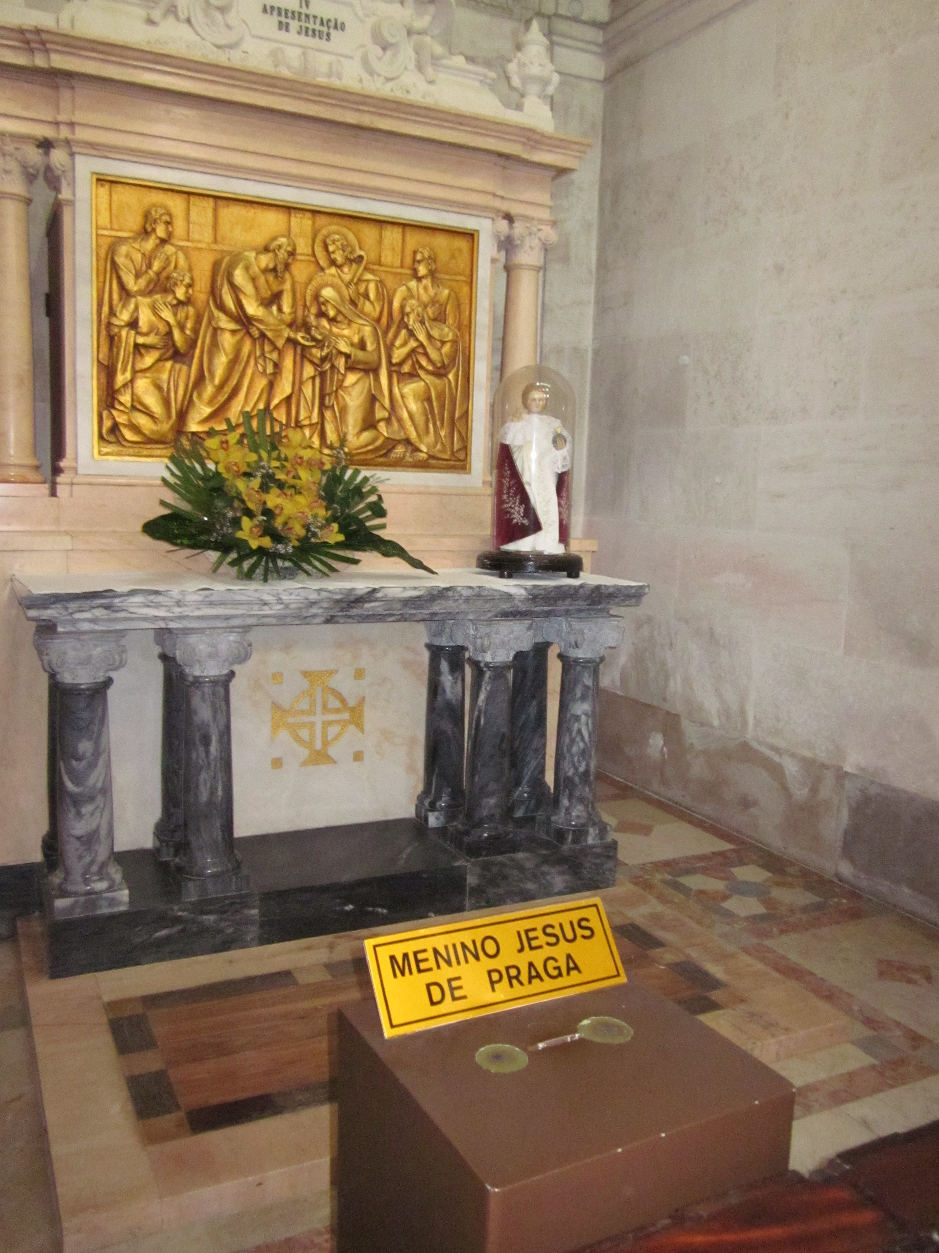 Infant Jesus of Prague in the basilica of Fatima, Ourém, Portugal.